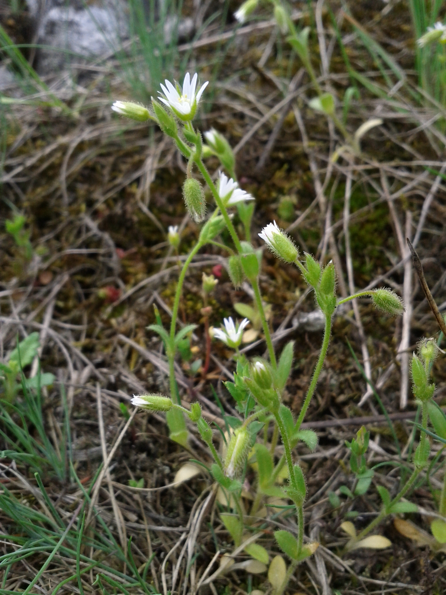 Habitus Taxon: Cerastium pumilum agg. (sensu Fischer et al. EfÖLS 2008 ISBN 978-3-85474-187-9) Location: Steinbacher Heide near Ernstbrunn, district Korneuburg, Lower Austria - ca. 450 m a.s.l. Habitat: dry grassland